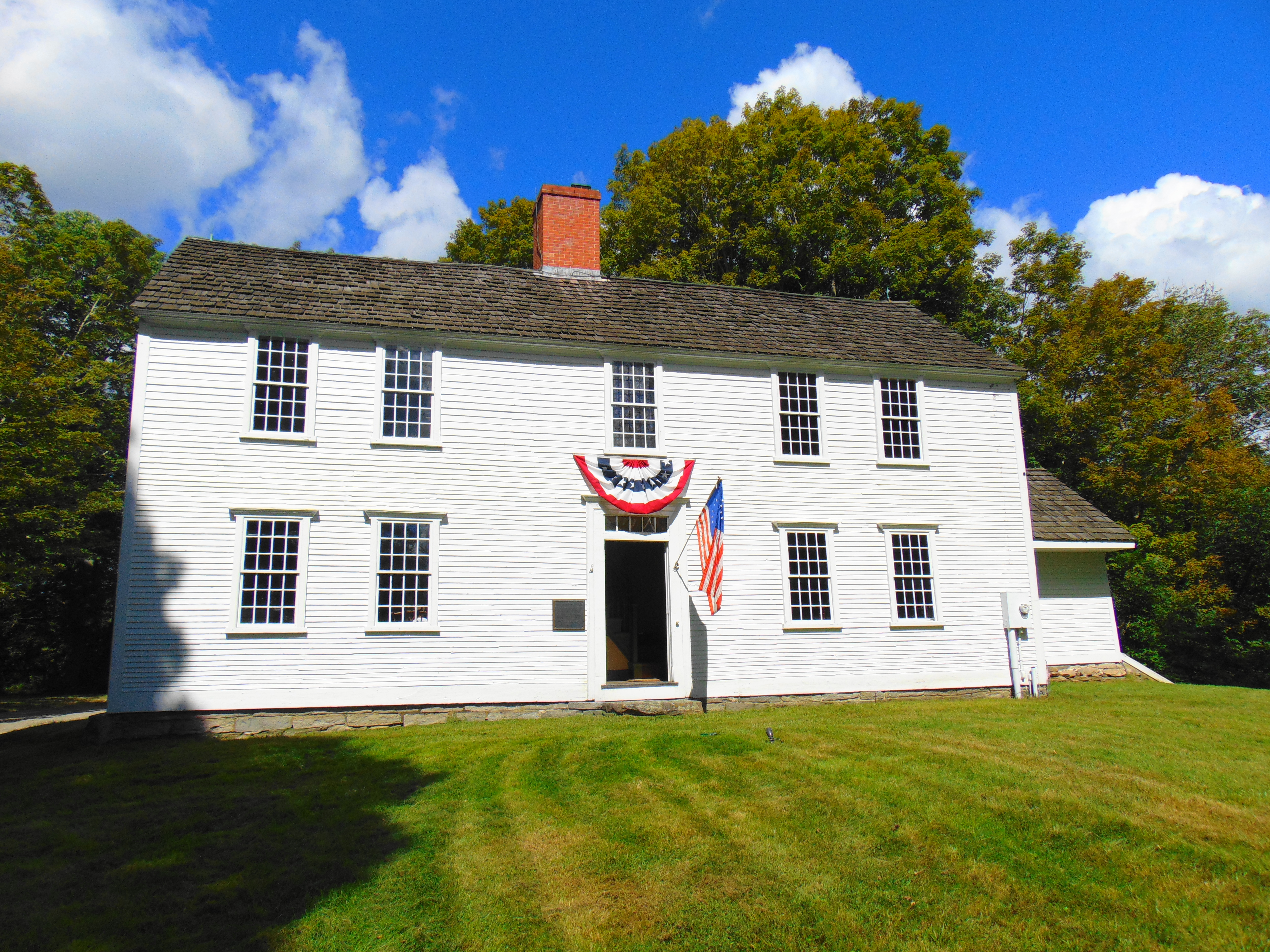 Wikidata has entry Q7411757 with data related to this item.The Samuel Huntington Homestead located in Scotland, Connecticut on Route 14. This is a National Historic Landmark property.